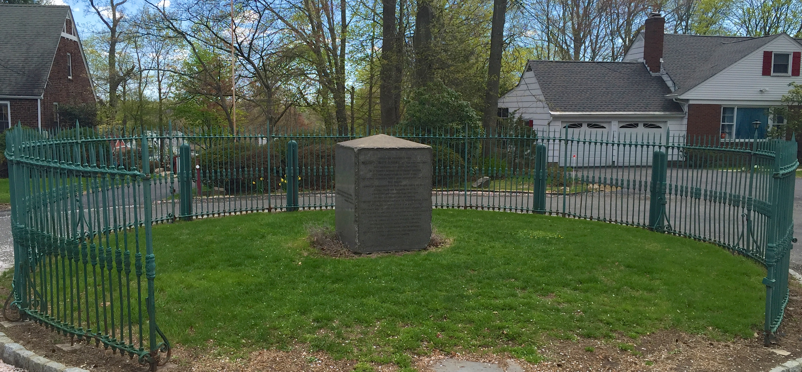 Major John Andre Monument in Tappan, New York